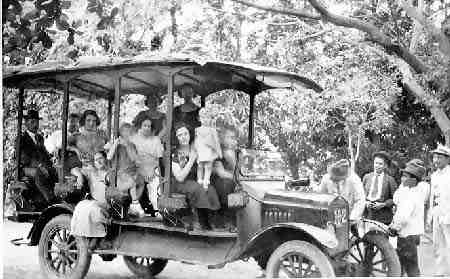 Bus Cúcuta - 1920; based on Ford Model TT as built 1917-1922.